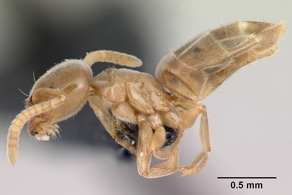 Profile view of ant Bothriomyrmex saundersi specimen casent0172693.